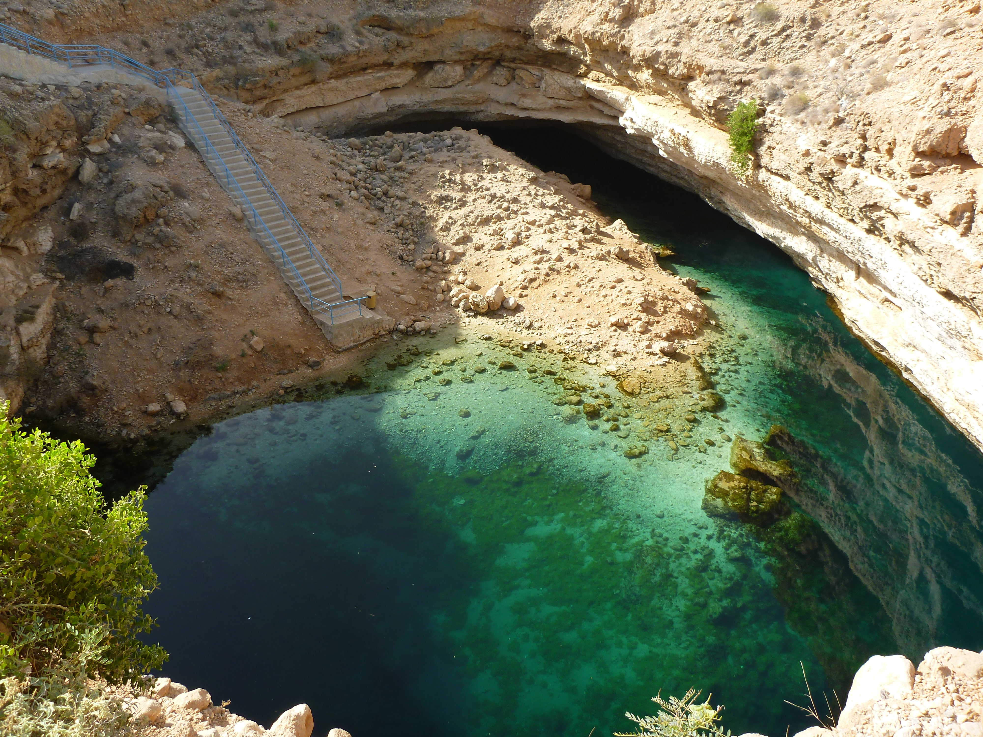 Hawiyat Najm, Dabab_Sinkhole, Bait al Afreet, Bimmah Sinkhole or Hawiyat Najm (The Falling Star Sinkhole) is a sinkhole at the north east cost of the Sultanate of Oman.